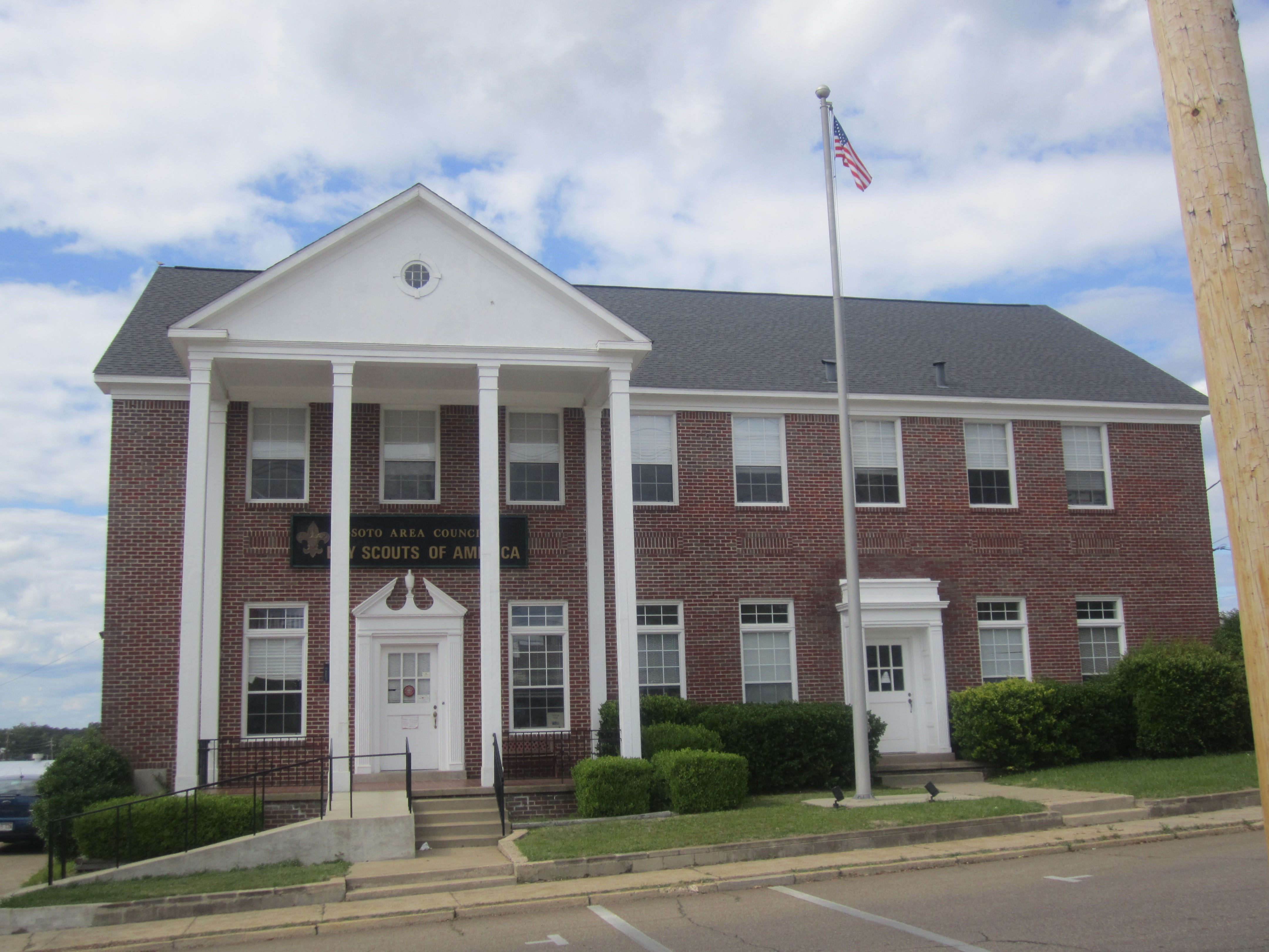 I took photo of De Soto Area Council of Boy Scouts of America in El Dorado, AR